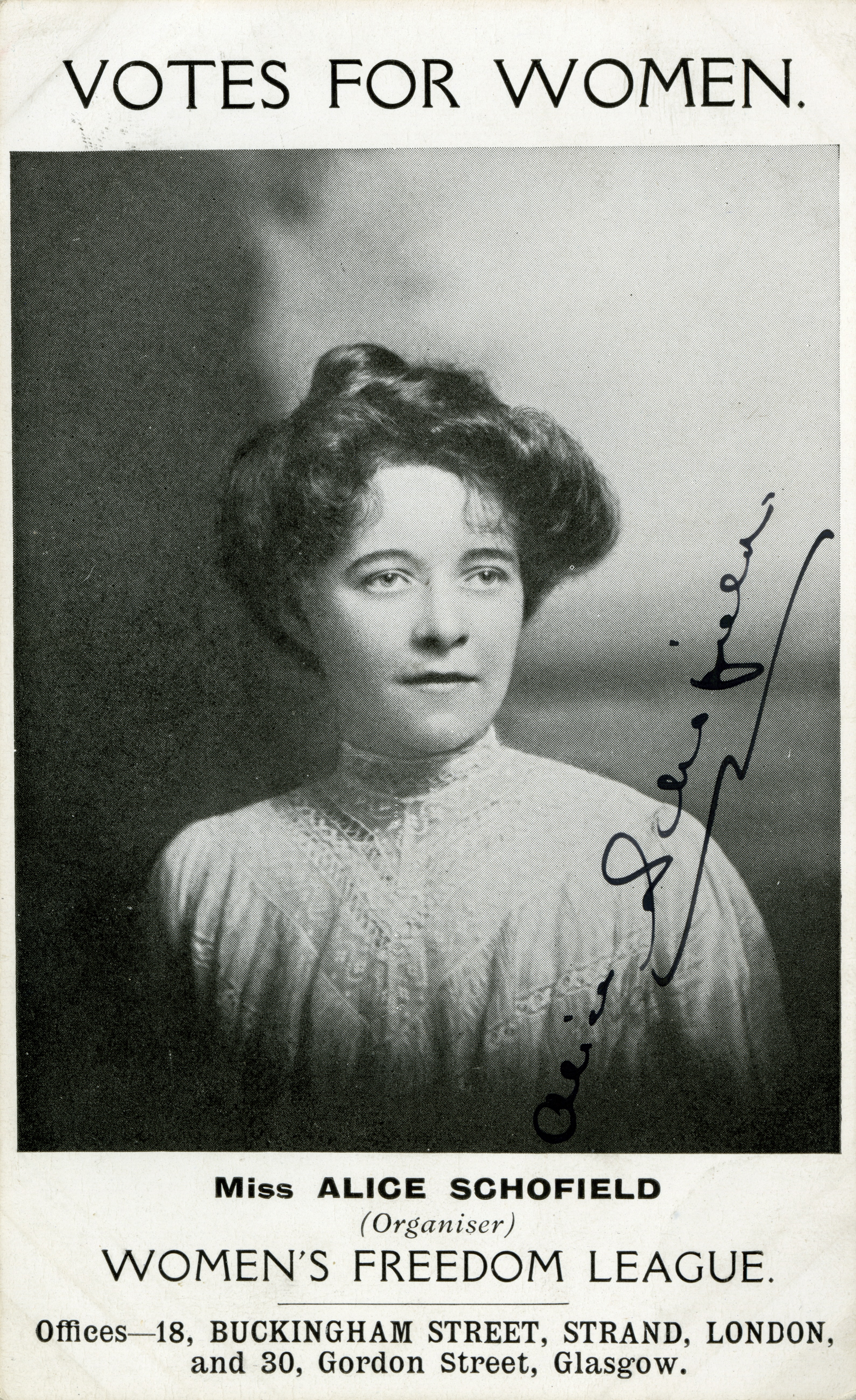 TWL.2000.160Postcard, printed, cardboard, monochrome photographic studio portrait of 'Miss ALICE SCHOFIELD', head and shoulders, front-profile, white border black text, printed inscription front: 'VOTES FOR WOMEN. Miss ALICE SCHOFIELD (Organiser) WOMEN'S FREEDOM LEAGUE. Offices - 18, BUCKINGHAM STREET, STRAND, LONDON, and 30, Gordon Street, Glasgow', signed 'Alice Schofield' in black ink in front bottom right corner. - Later Alice Schofield Coates